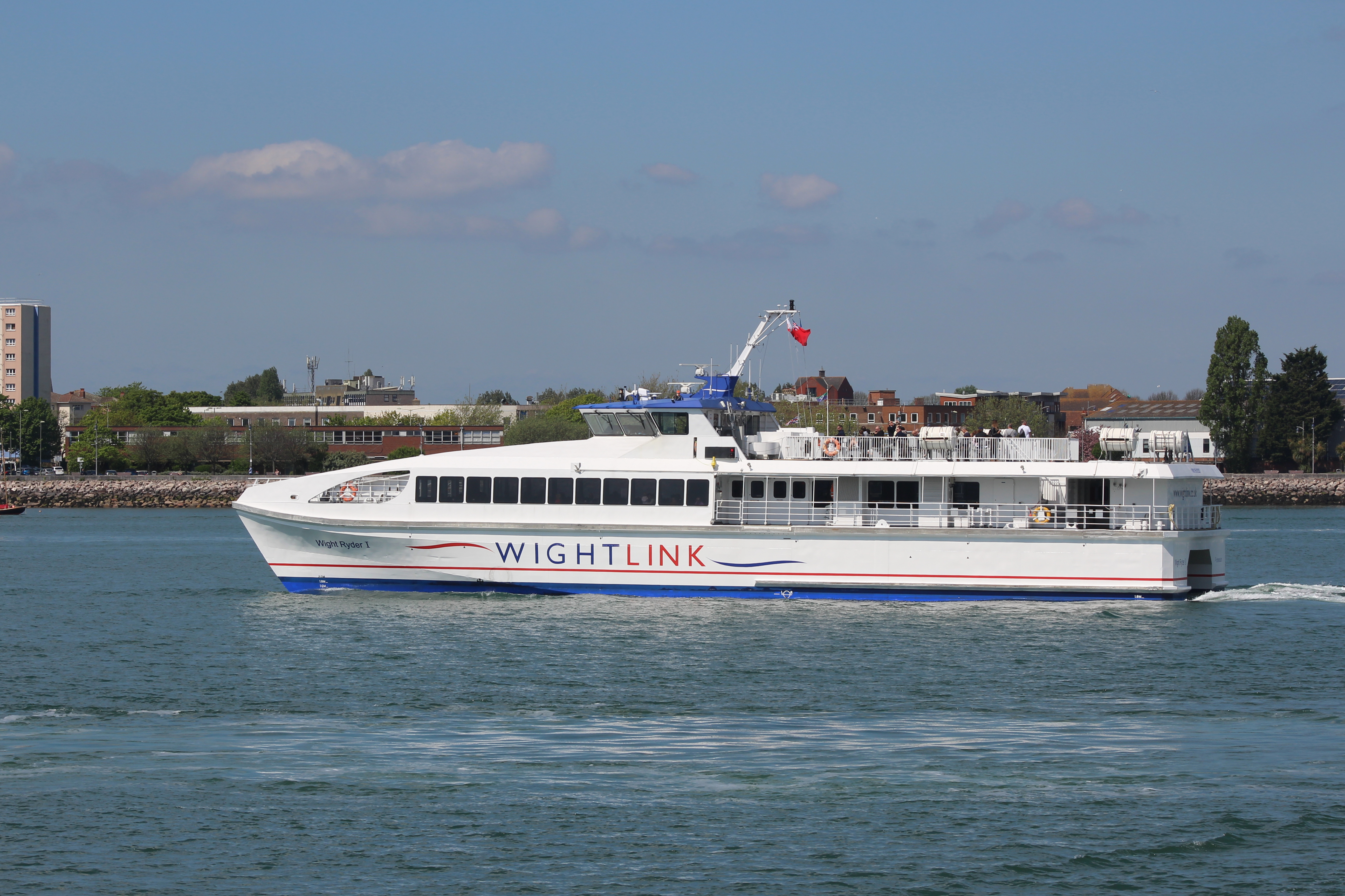 Wight Ryder I, a catamaran owned by Wightlink leaving Portsmouth for the Isle of Wight. This photo was taken shortly after the boat had made a "U-turn" after leaving her berth. The wake left by the vessel before she made the turn can be seen in the foreground of the photo.